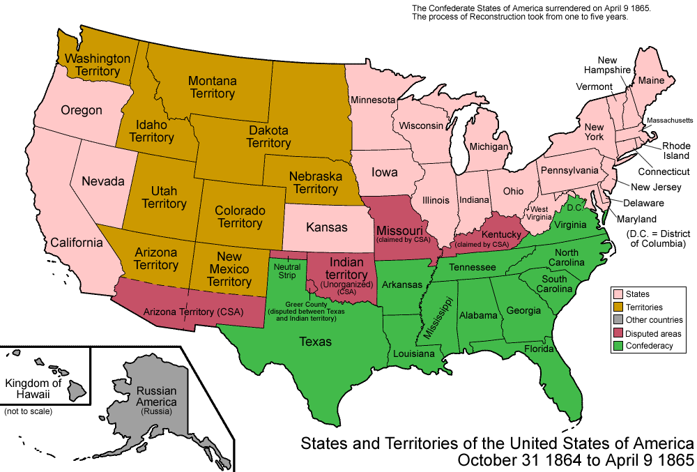 Map of the states and territories of the United States as it was from October 1864 to 1865. On October 31 1864, Nevada Territory was admitted as the state of Nevada. On April 9 1865, the Confederate States of America surrendered; the process of Reconstruction and readmission to the union would take up to five years.